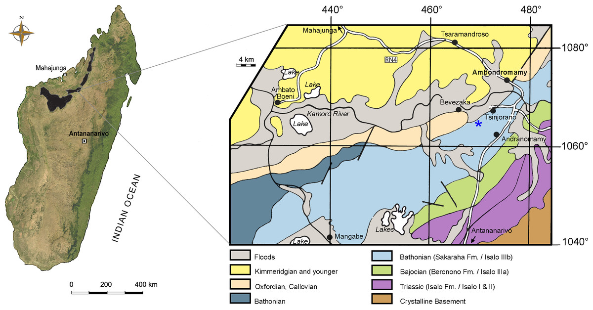 Map depicting the Triassic and Jurassic outcrops of the Mahajanga Basin (black areas on the left), and geological map of the surroundings of Ambondromamy, highlighting the Sakaraha Fm. (light blue). Part of the material described herein (the premaxilla and the dentary) comes from the area marked by the blue asterisk. Based on Besairie (1968–1969).